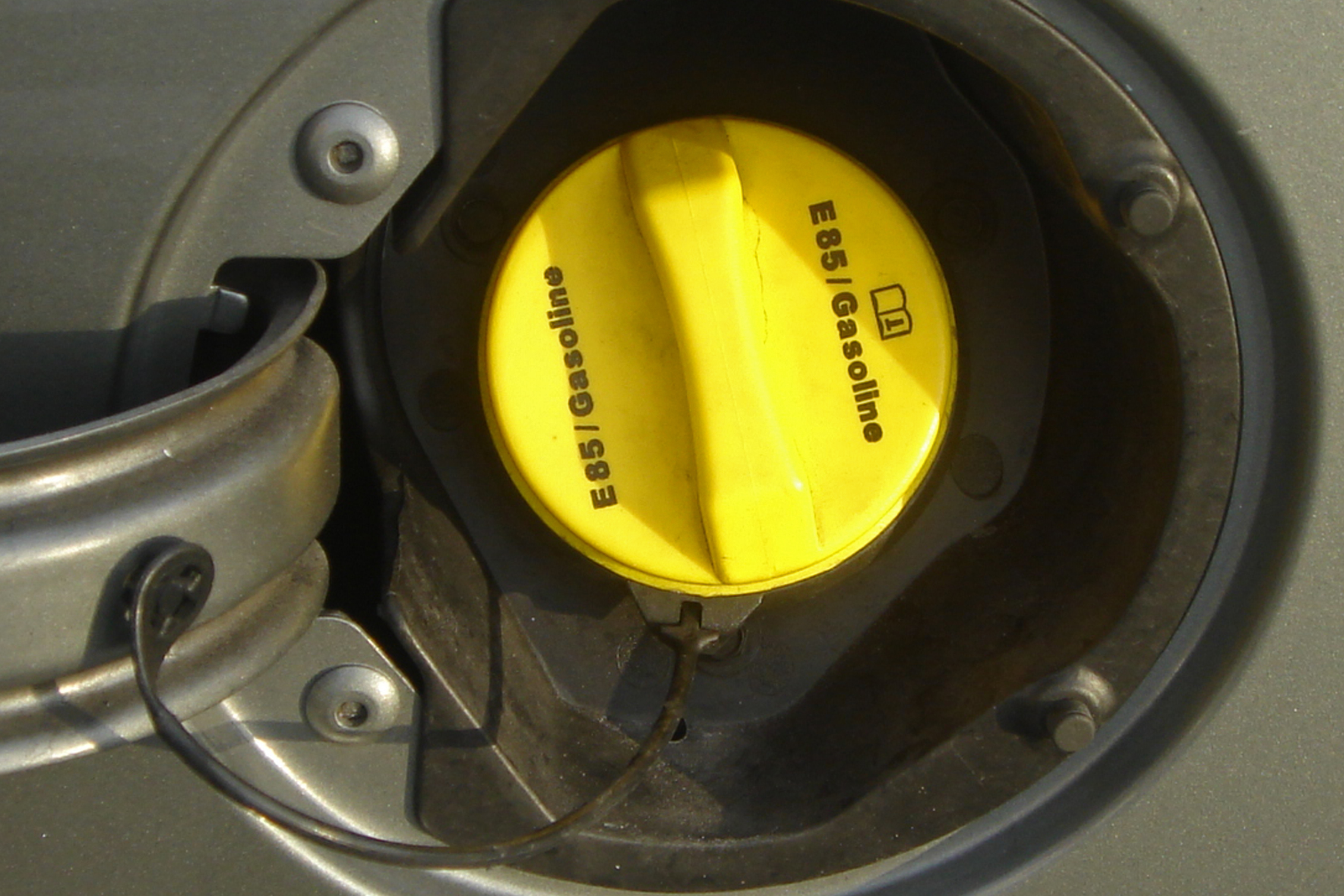 Typical E85 yellow cap used American models to identify flexible-fuel vehicles. (Miami, USA)